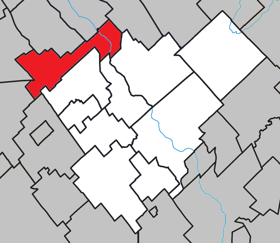 Location of Saint-Séverin (Chaudière-Appalaches), Quebec within Robert-Cliche Regional County Municipality.